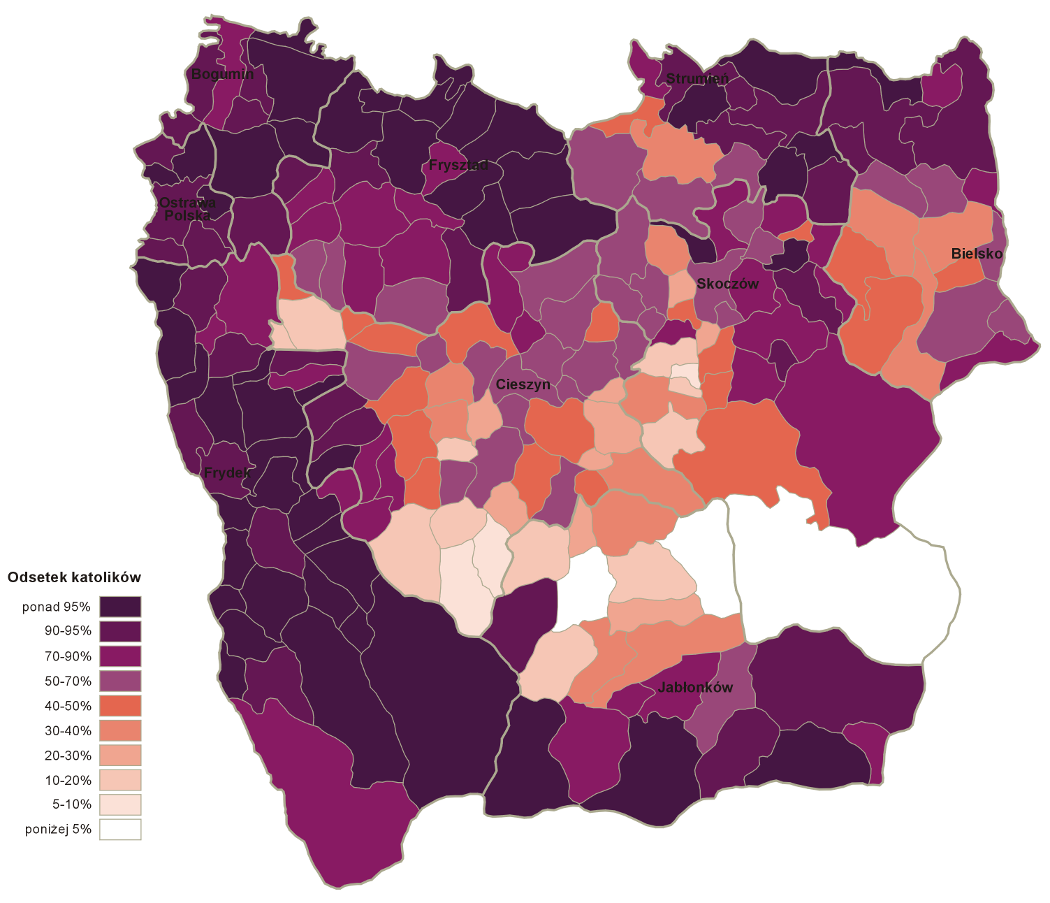 Percentage of Roman Catholics in communes of the Duchy of Teschen according to the Austrian census 1910